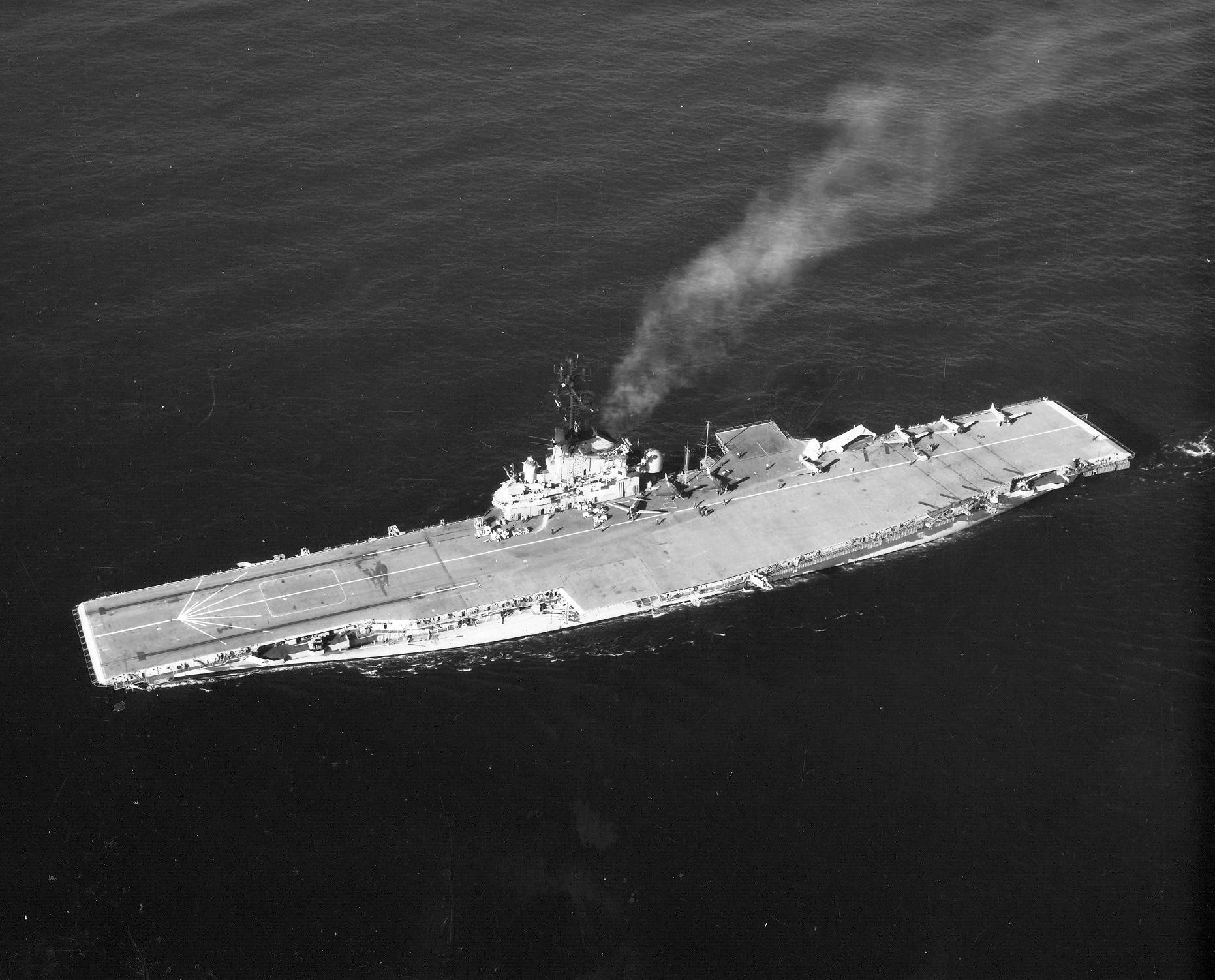 The U.S. Navy aircraft carrier USS Yorktown (CVS-10) during the filming of Tora! Tora! Tora!, her flight deck painted to resemble that of a World War II Imperial Japanese Navy carrier. Note the piston-engined aircraft on deck, often North American T-6 Texan resembling Japanese aircraft.